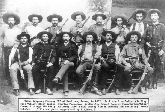 Standing from left: James W. King, B.L. Outlaw, Riley Barton, Charles H. Fusselman, James W. "Tink" Durbin, Ernest Rogers, Charles Barton, and Walter Jones. Seated from left: Robert Bell, Calvin G. Aten, Captain Frank Jones, J. Walter Durbin, James R. Robinson, and Frank L. Schmid Jr. Taken at Realitos, Texas in 1887.